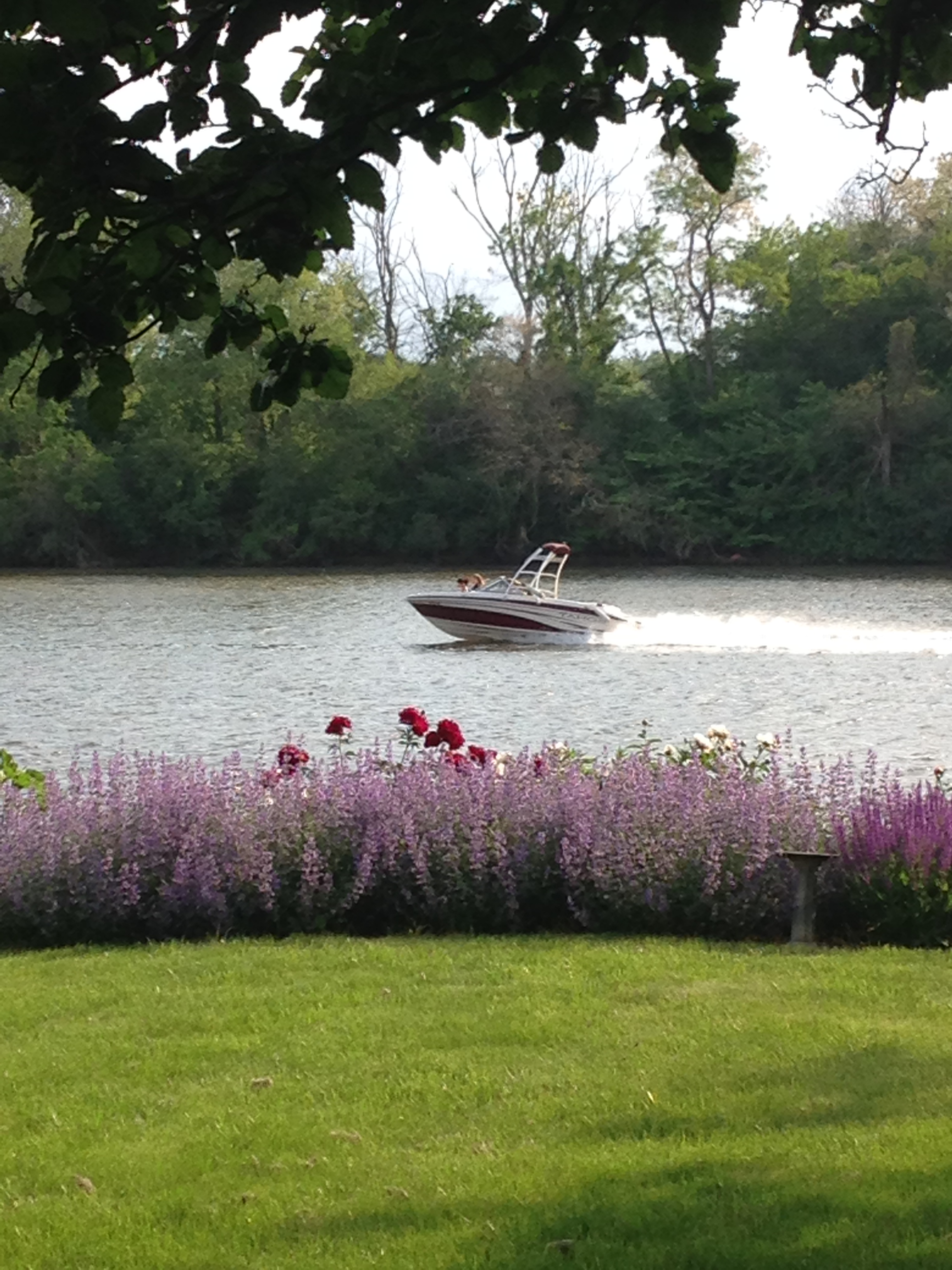 Kankakee River